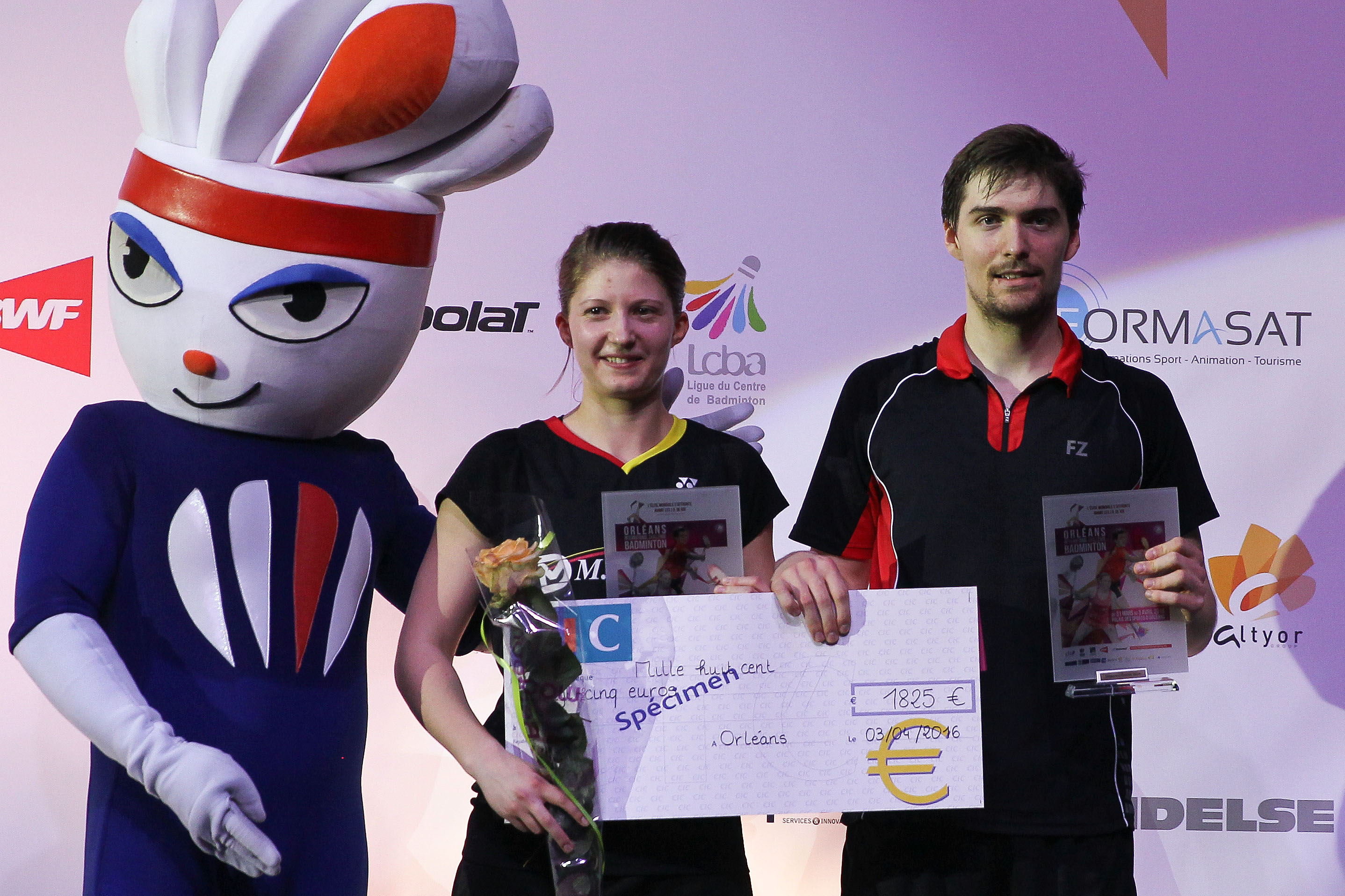 Grebak & Christiansen (DEN) Winners MX 2015 & 2016